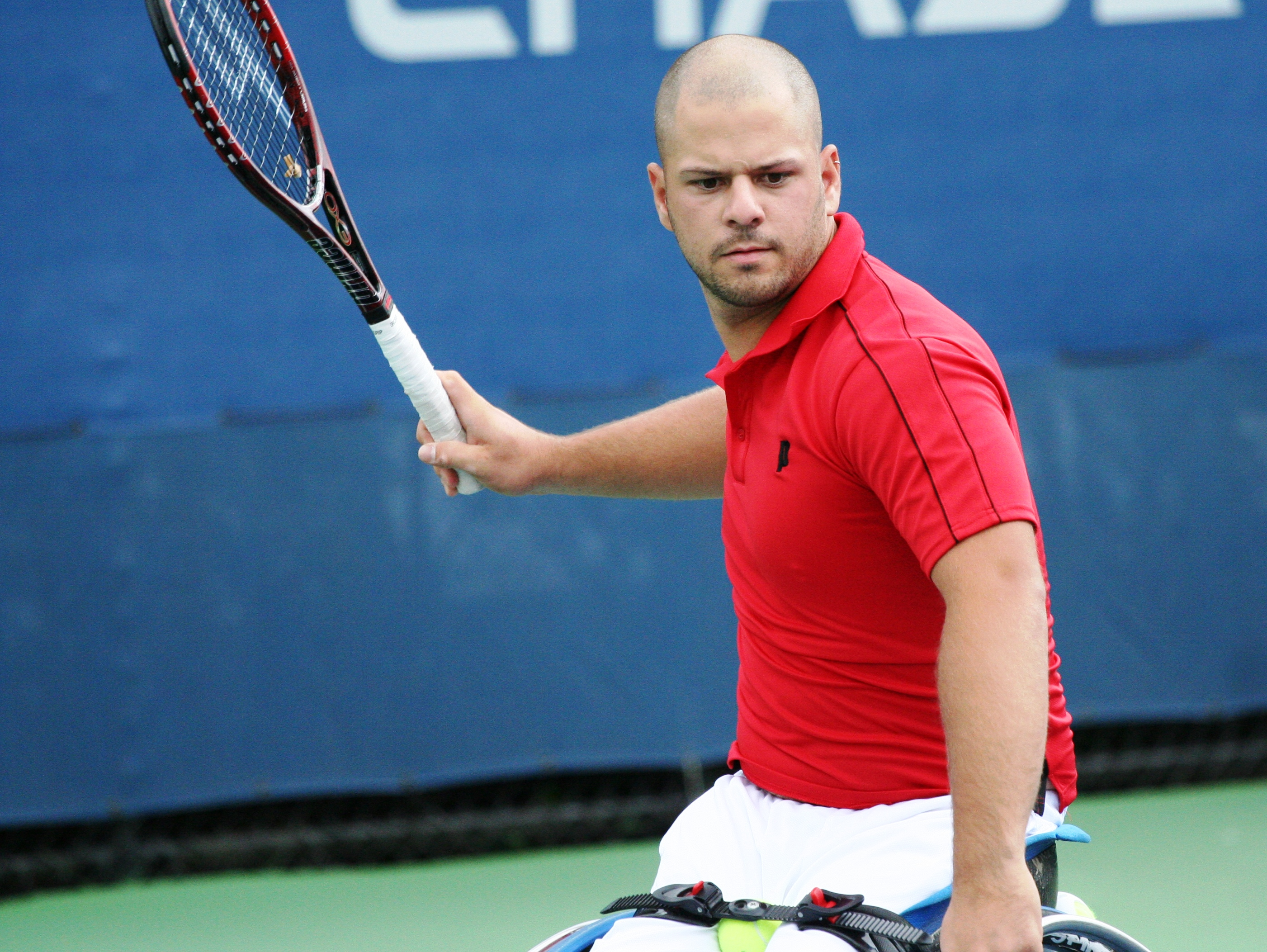 U.S. Open Wheelchair Thursday, Sept. 9, 2010